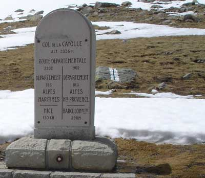 Andrew Hoefel, personal photo collection